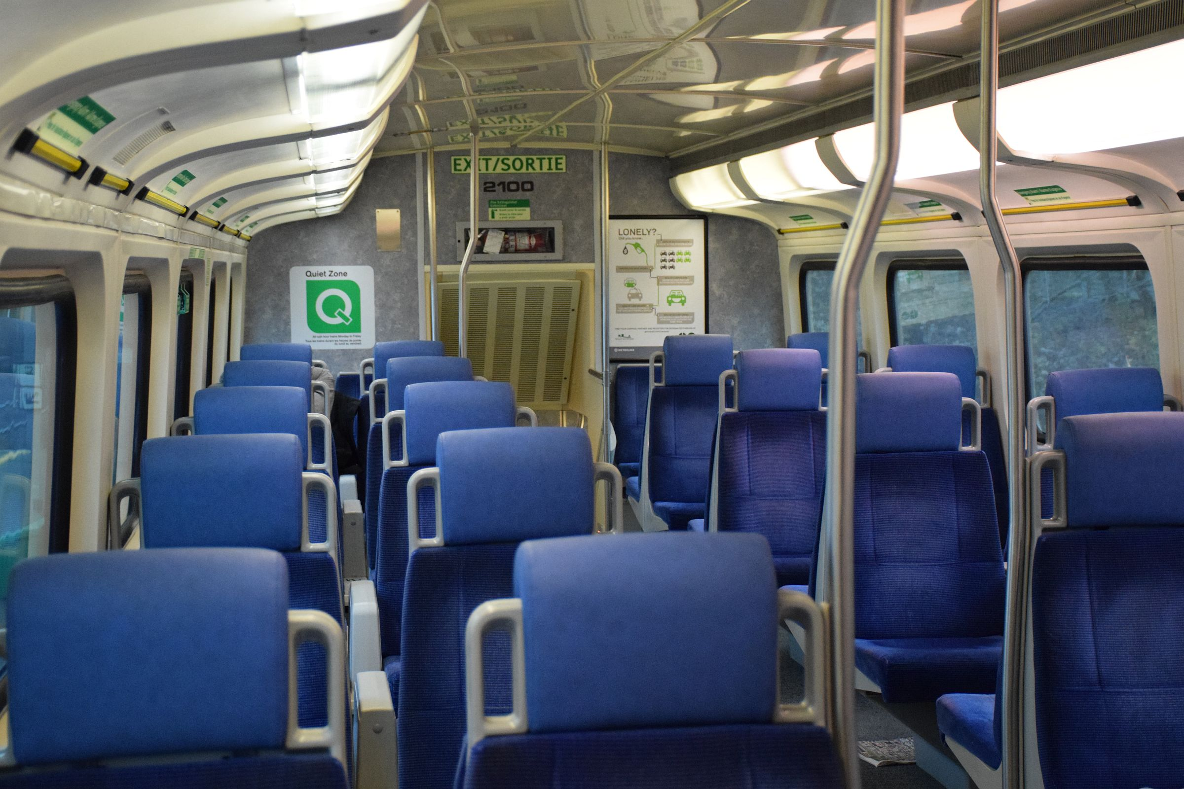 Interior of a GO Transit bilevel coach on the upper level